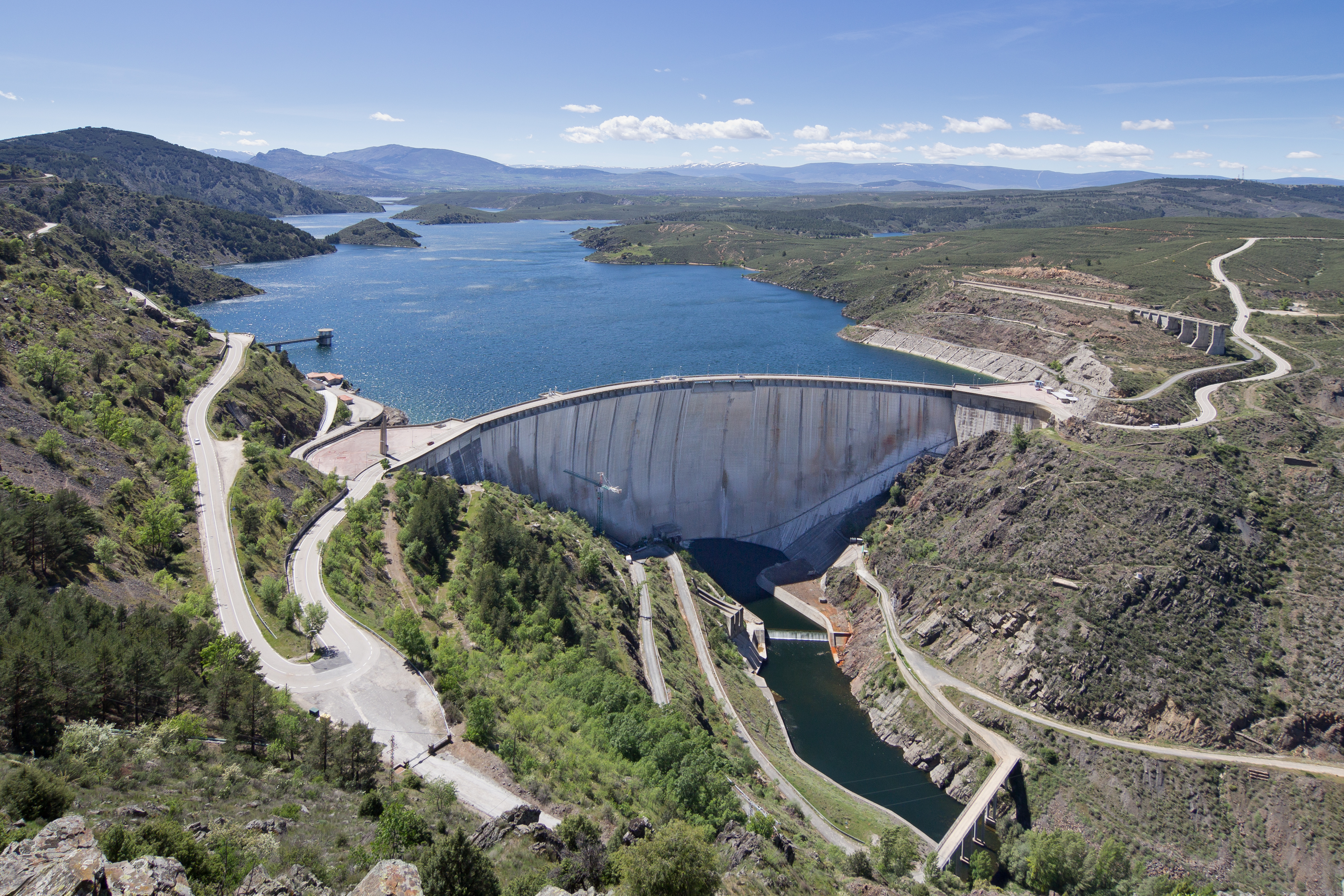 El Atazar Dam, Community of Madrid, Spain. The dam is 134 m high.